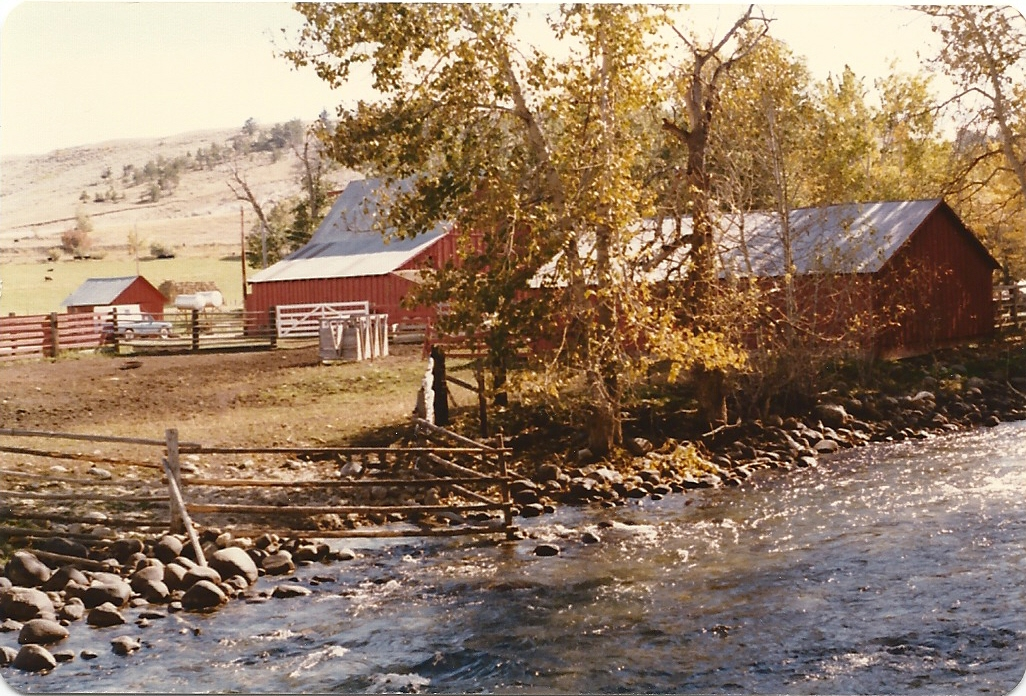 Rock-strewn creek, farm, and fence in Roscoe, Carbon County, Montana